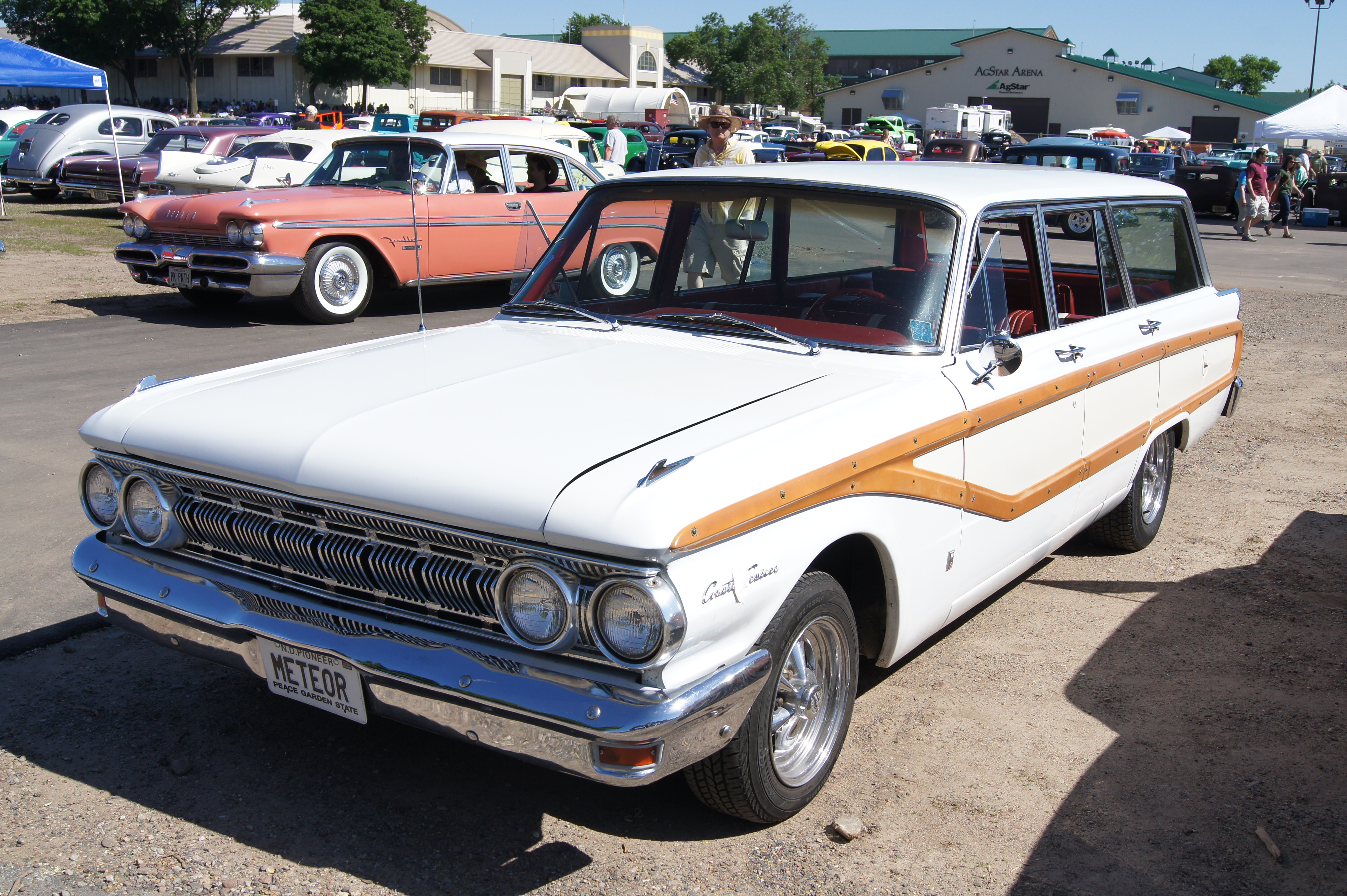 MSRA “BACK TO THE 50′s” 41st Annual June 20-22, 2014 State Fairgrounds St. Paul Minnesota More Car Pictures